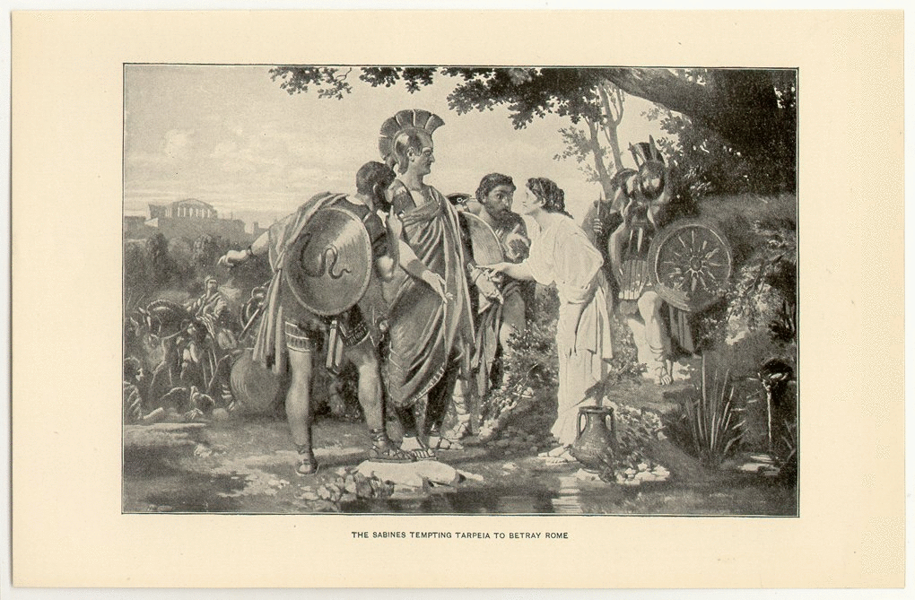 This elementary history of Rome presents short stories of the great heroes, mythical and historical, from Aeneas and the founding of Rome to the fall of the western empire. Around the famous characters of Rome are graphically grouped the great events with which their names will forever stand connected. Vivid descriptions bring to life the events narrated, making history attractive to the young, and awakening their enthusiasm for further reading and study.